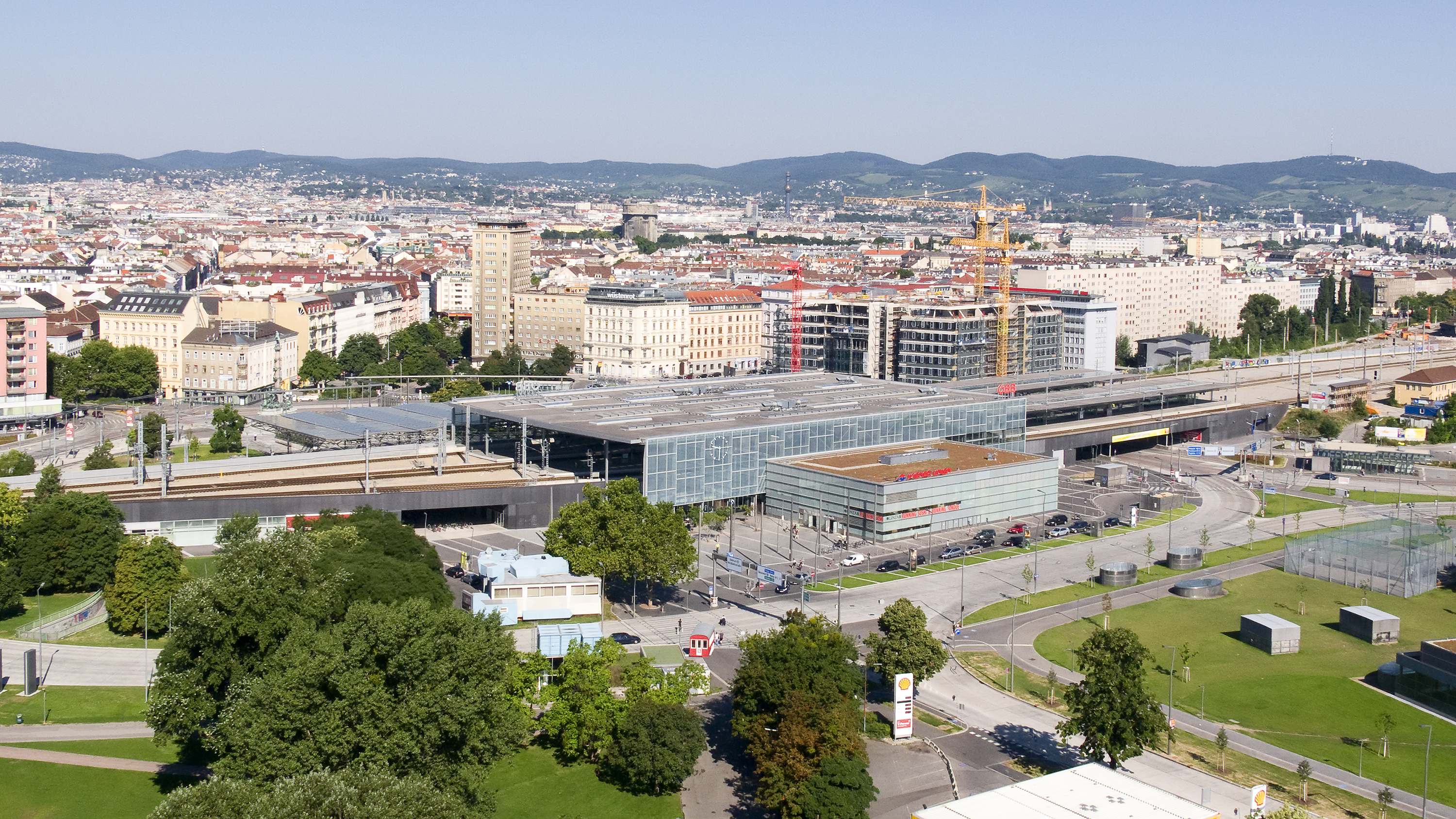 Railway station Bahnhof Wien Praterstern in Vienna Leopoldstadt